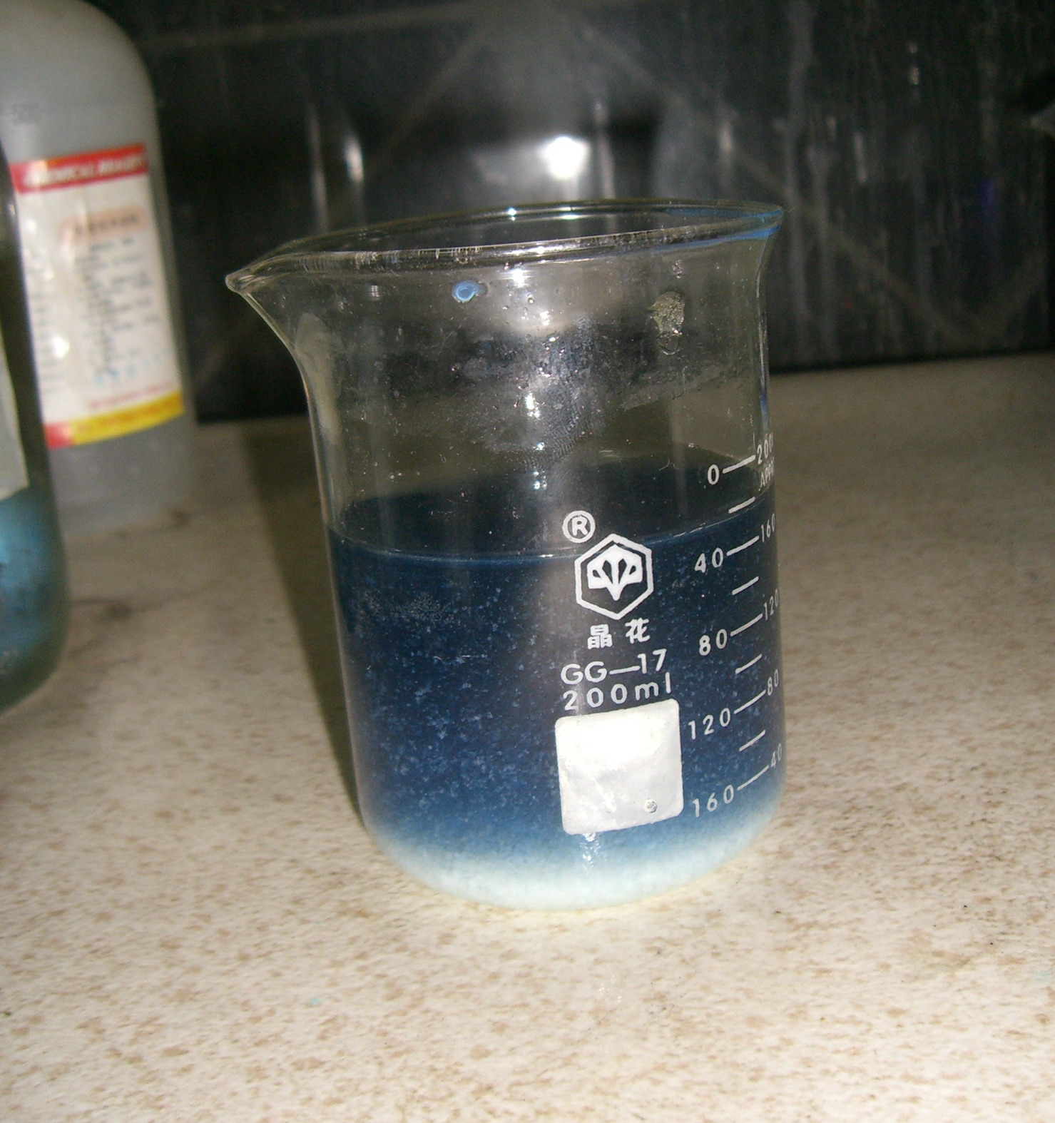 Solution of Tetramminecopper(II) sulfate (deep blue) with Copper(I) chloride (white) solid precipitating out